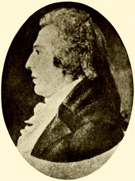 David A. Ogden, New York Congressman